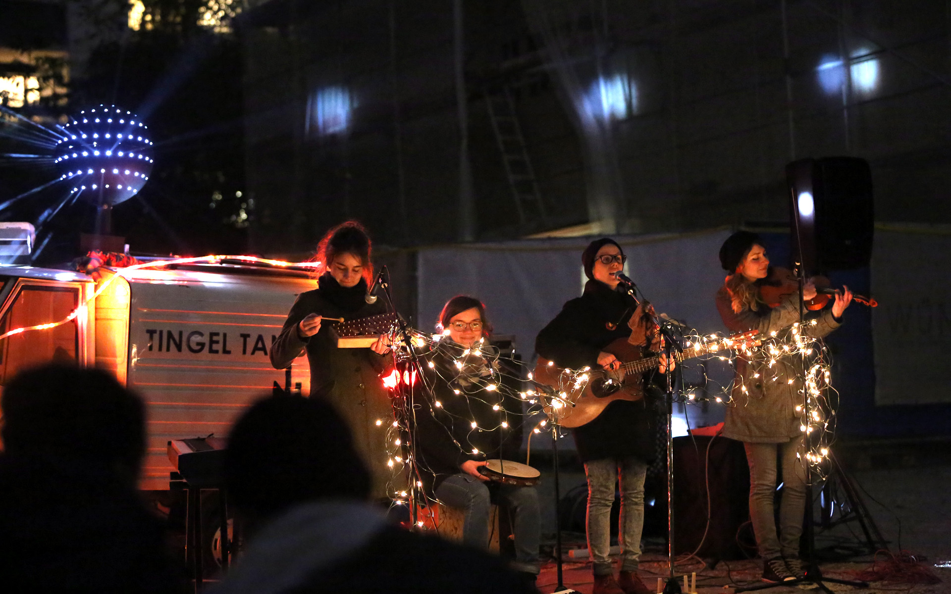 Fräulein Hona at the street festival "Meet the Penzing Stars" in Vienna, Austria.